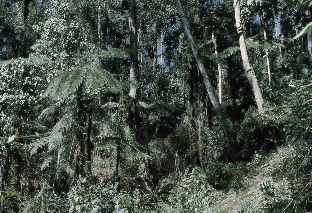 Mid mountain forests / Dense Forest on mountain spurs / Owen Stanley Range, Bulldog Track, PNG